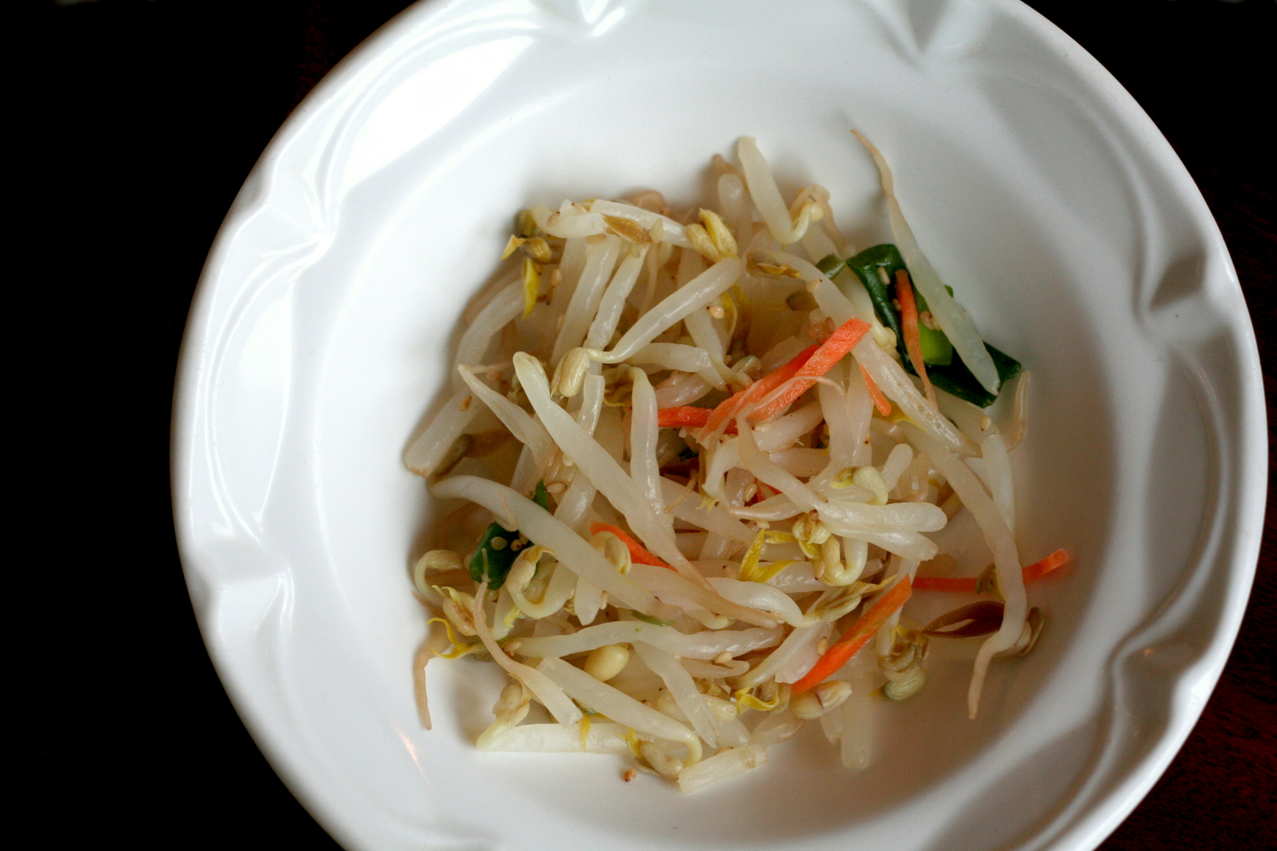 Sauteed mung bean sprouts.